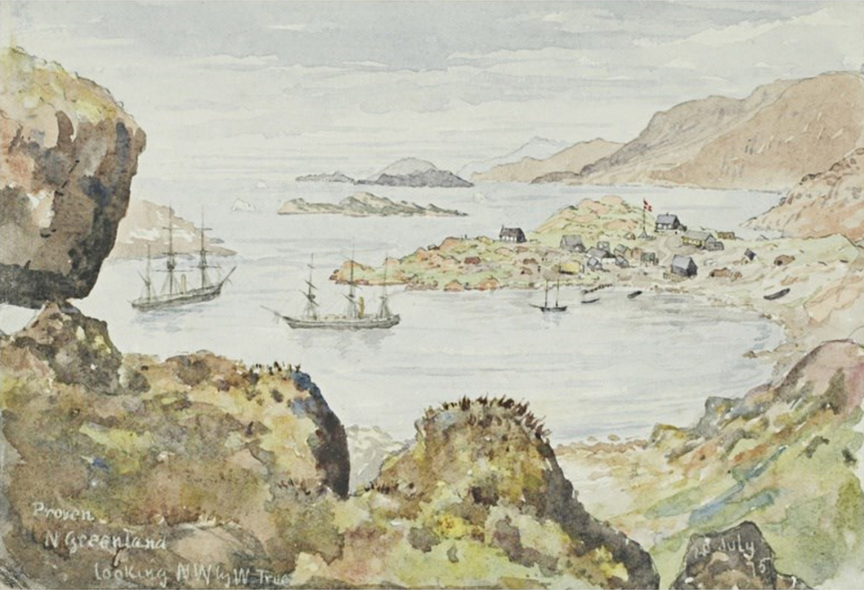 Painting of Prøven, now Kangersuatsiaq, town in Upernavik District, Qaasuitsup Municipality, West Greenland